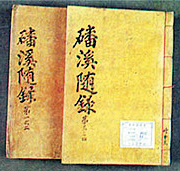 Yu Hyungwon's Bangyesoorok